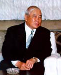 Masahide Ōta, Governor of Okinawa Prefecture, talked with Ryūtarō Hashimoto, Prime Minister, at the Prime Minister's Official Residence in Chiyoda Ward, Tōkyō Metropolis on February 17, 1997.